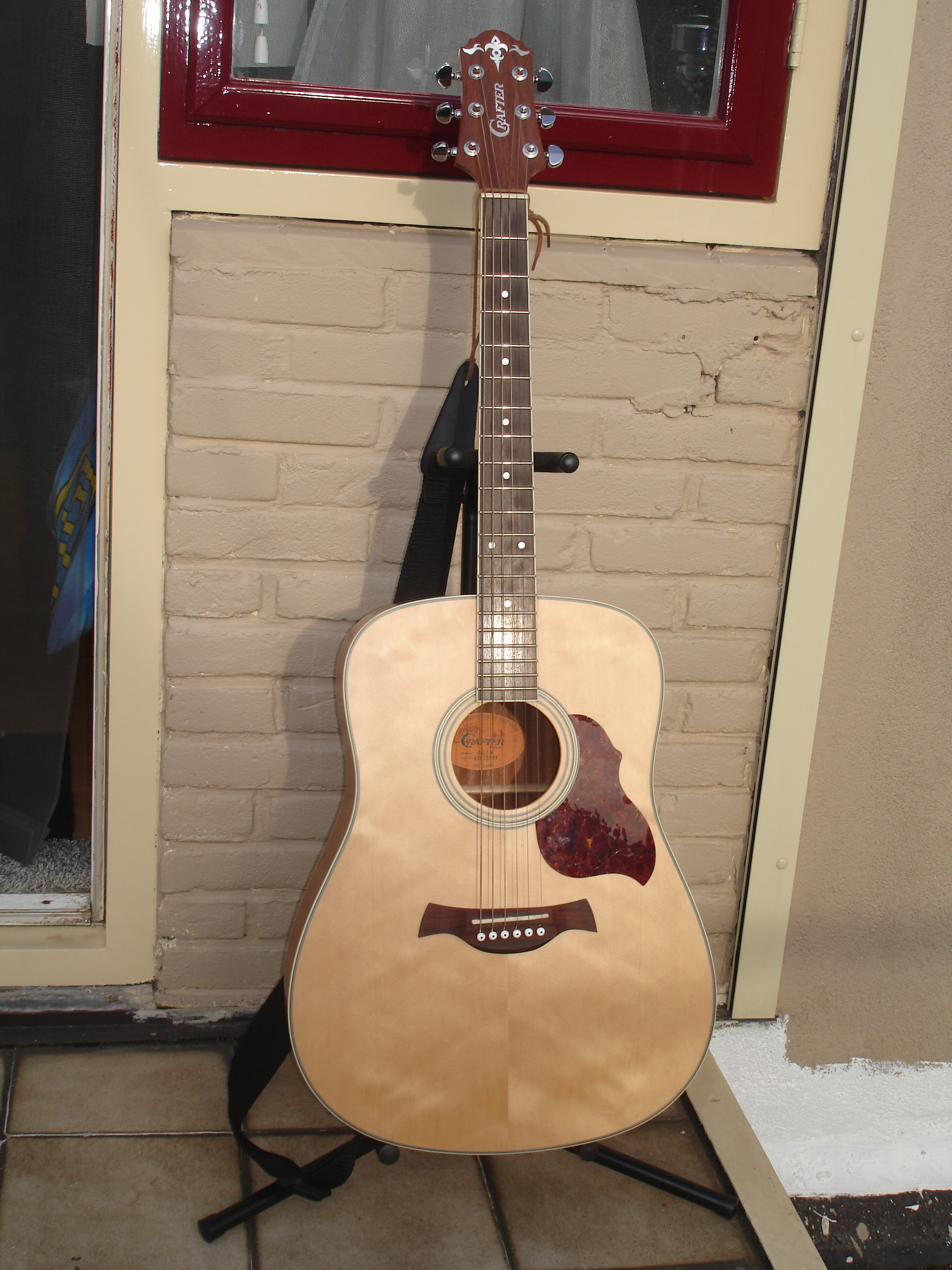 Acoustic Crafter D6/N guitar